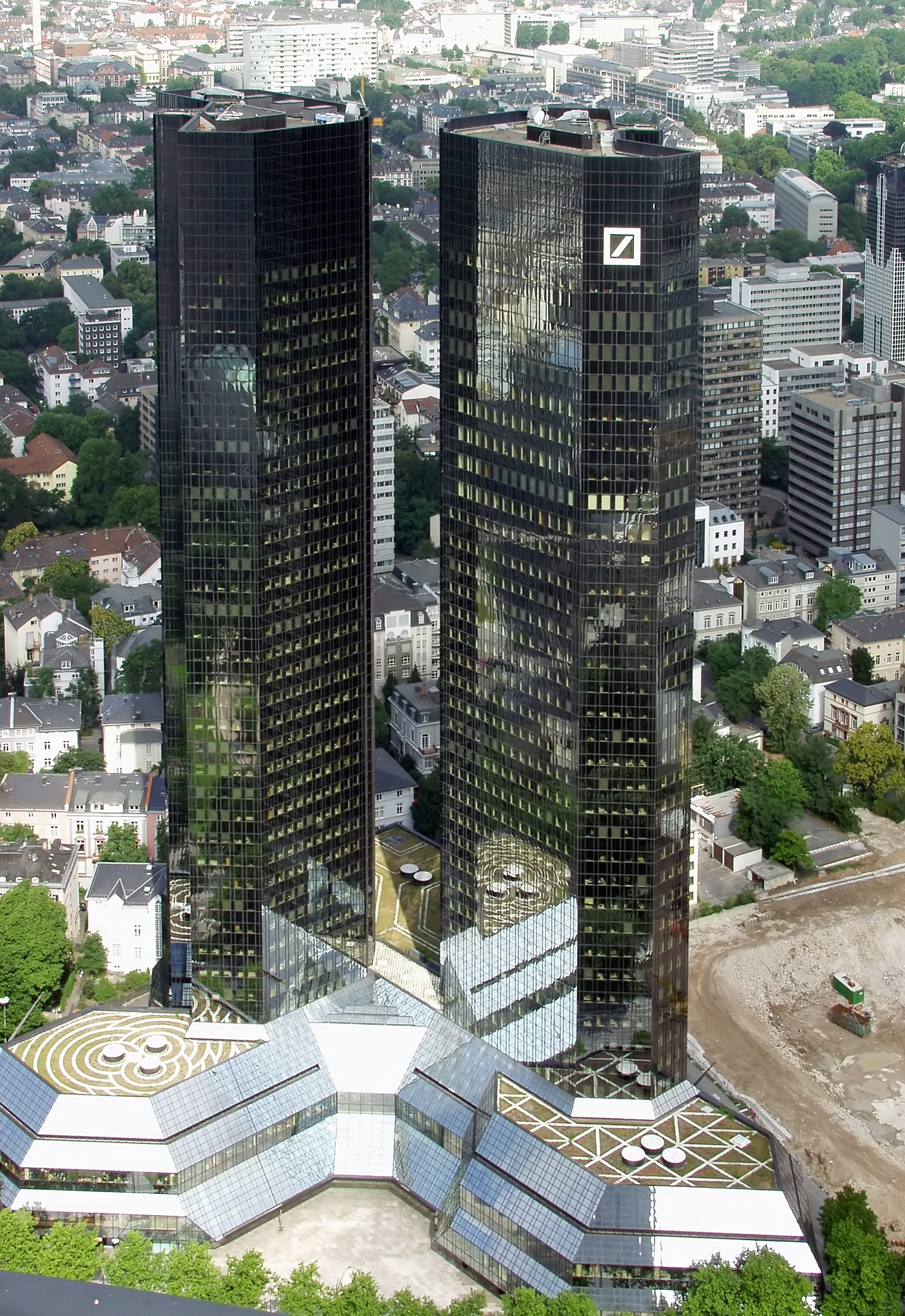 Skyscraper - Headquarter of Deutsche Bank AG in Frankfurt am Main / Germany